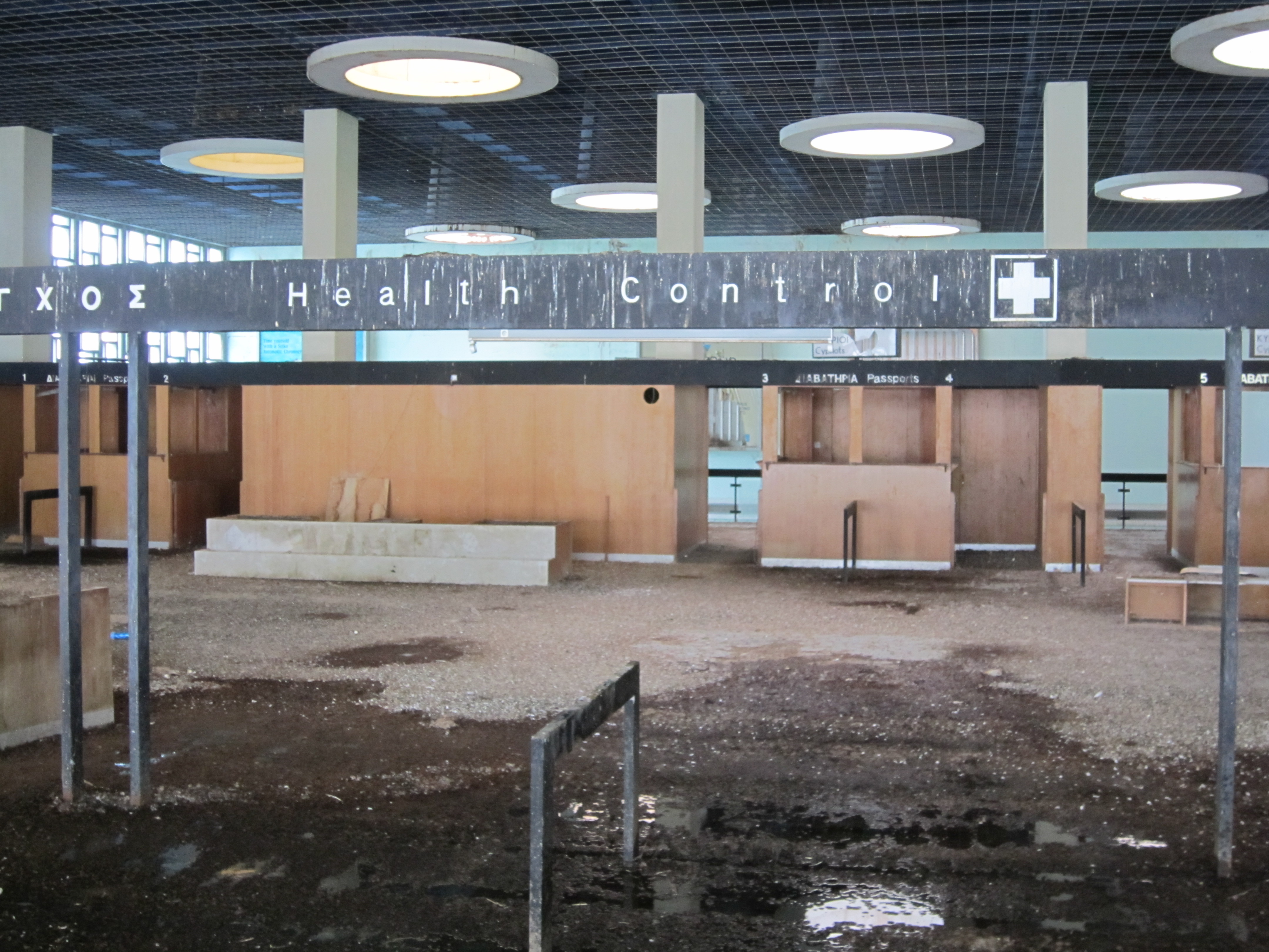 The health control station inside the derelict terminal at the closed Nicosia International Airport in the United Nations Buffer Zone in Cyprus.